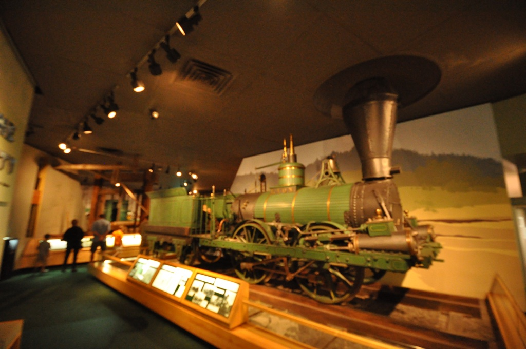 The Lion (locomotive), Maine State Museum, Augusta, Kennebec County, Maine. It is listed on the National Register of Historic Places as being in Machias, Washington County, Maine.